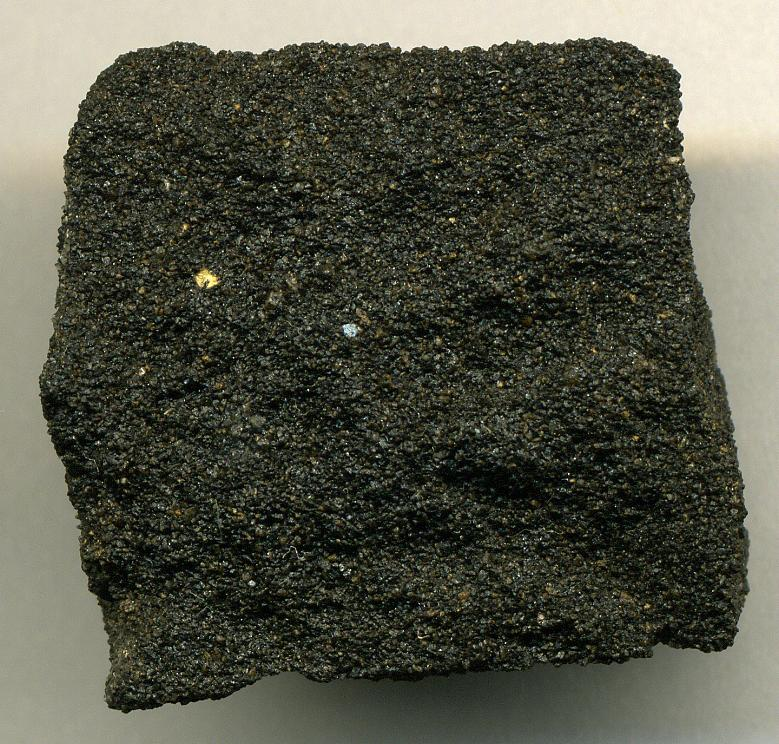 Tar sandstone from the Monterey Formation of Miocene age (10 to 12 million years old), of southern California, USA.